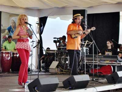 Los Cañoneros performing live at Centro de Arte La Estancia, in Caracas, Venezuela on June 30, 2007.